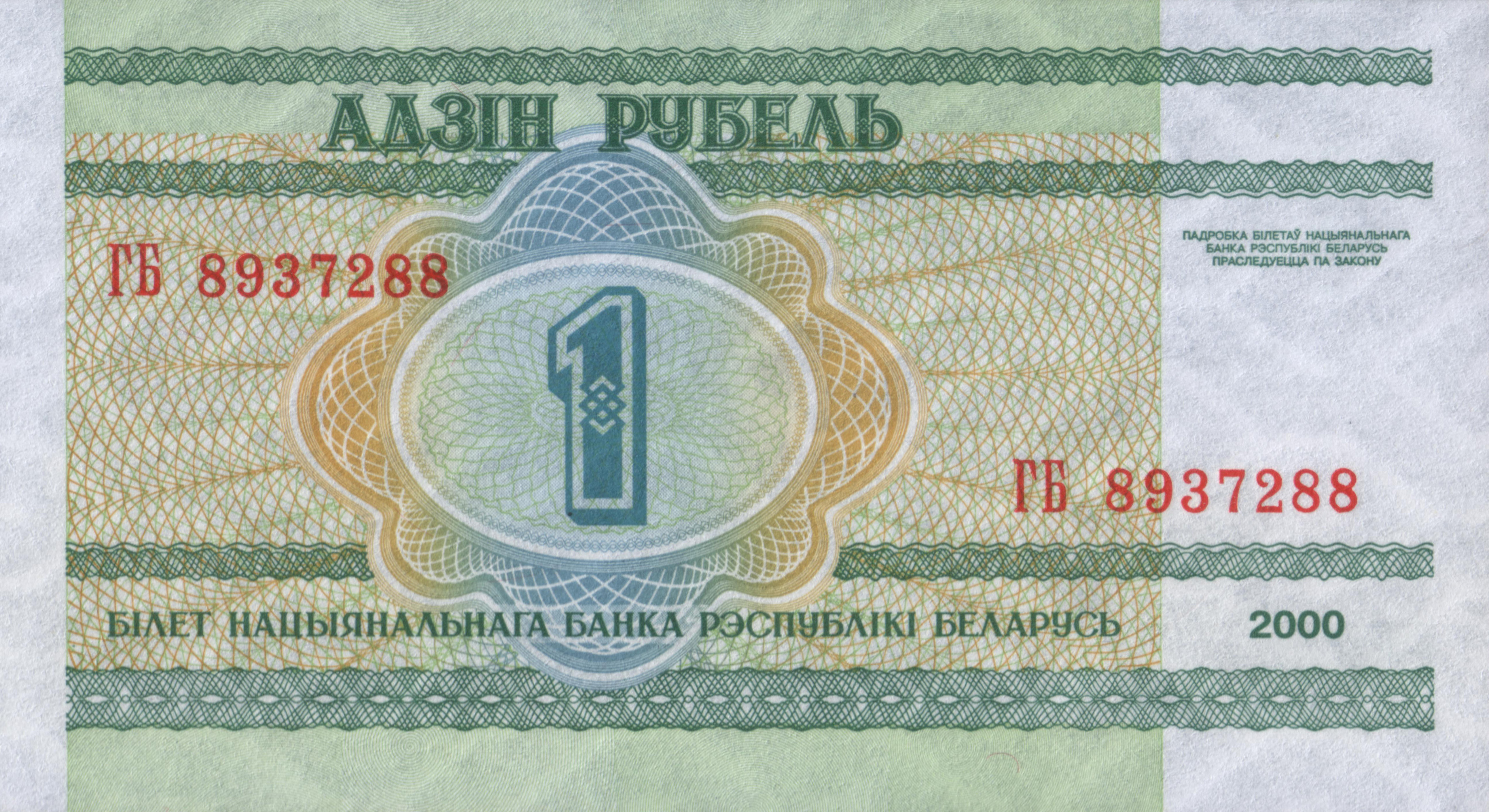 1 rouble of Belarus (2000)